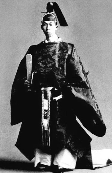 H.I.H. Takamatsu-Nobuhito in 1925